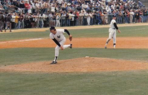 Goose Gossage pitches in New York Yankees Spring Training, 1983. Philatio (talk) 03:35, 5 May 2008 (UTC) 03:35, 5 May 2008 . . Phil5329 . . 487×314 (25 KB)